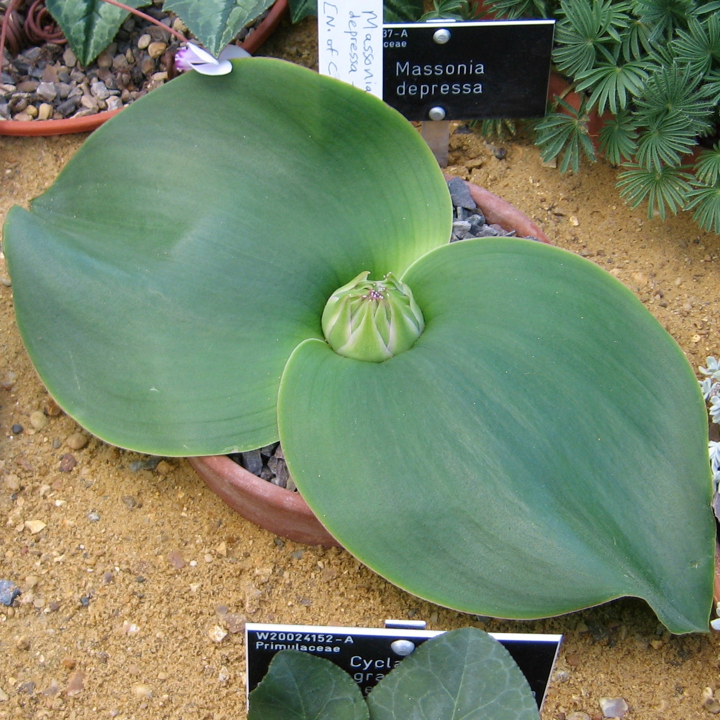 This African lilly is pollinated by gerbils. It produces a pool of sugary jelly in the centre of the flower which they like to lap up.